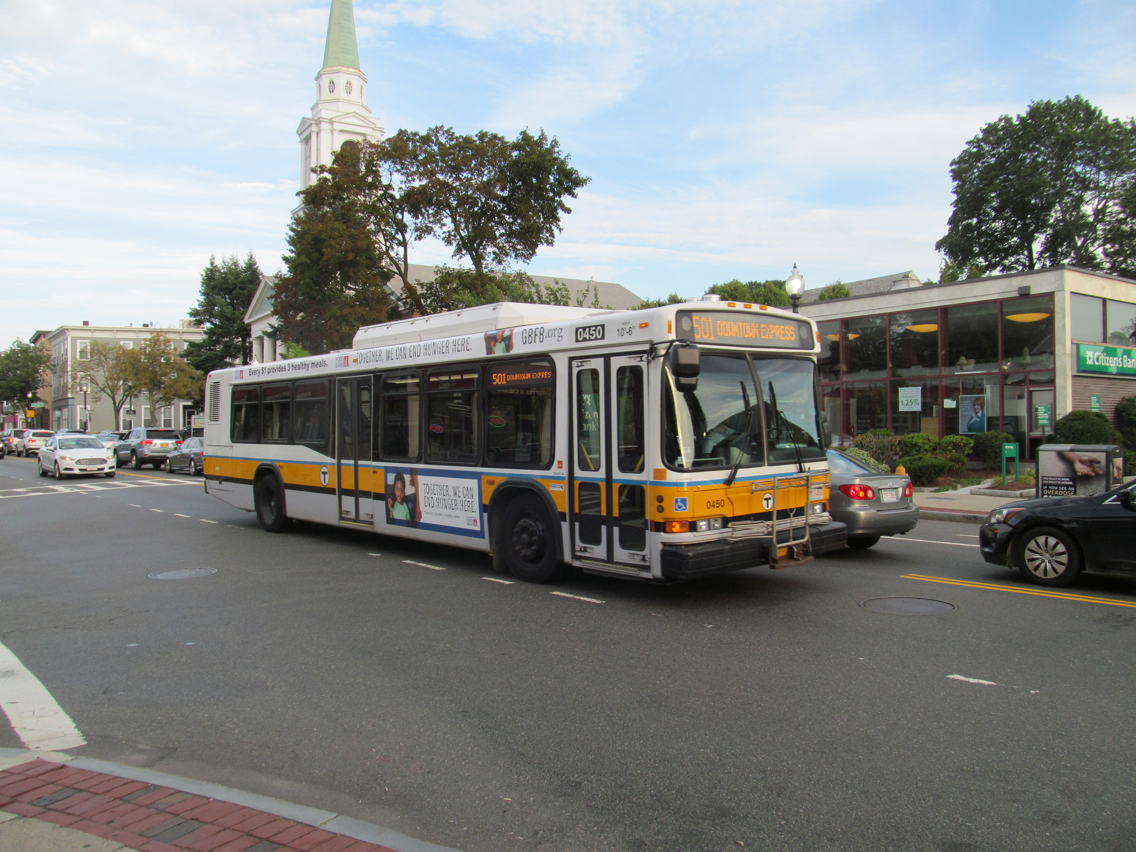 An MBTA bus on route 501 in Brighton Center in August 2016. The bus will head west to Newton Corner, where it will enter the Massachusetts Turnpike to go east to Downtown Boston.